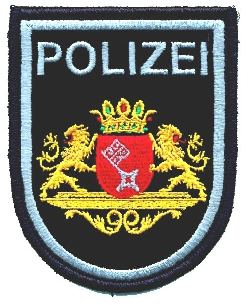 patch of the Polizei Bremen, Germany, black uniform